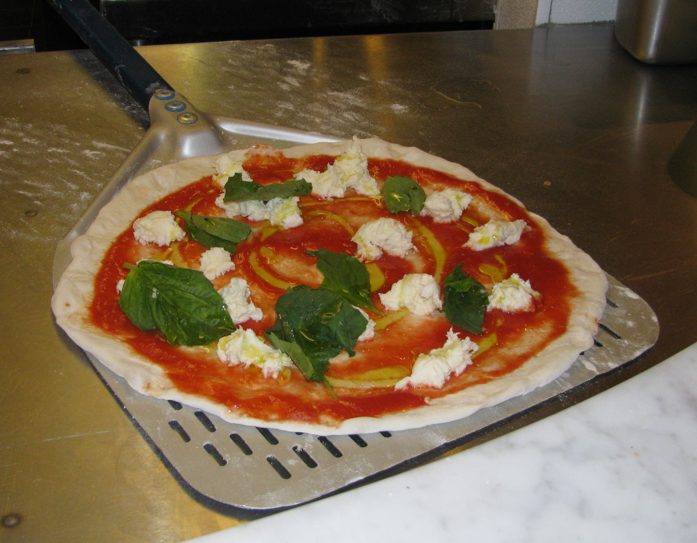 Uncooked neapolitan pizza; image made in San Francisco